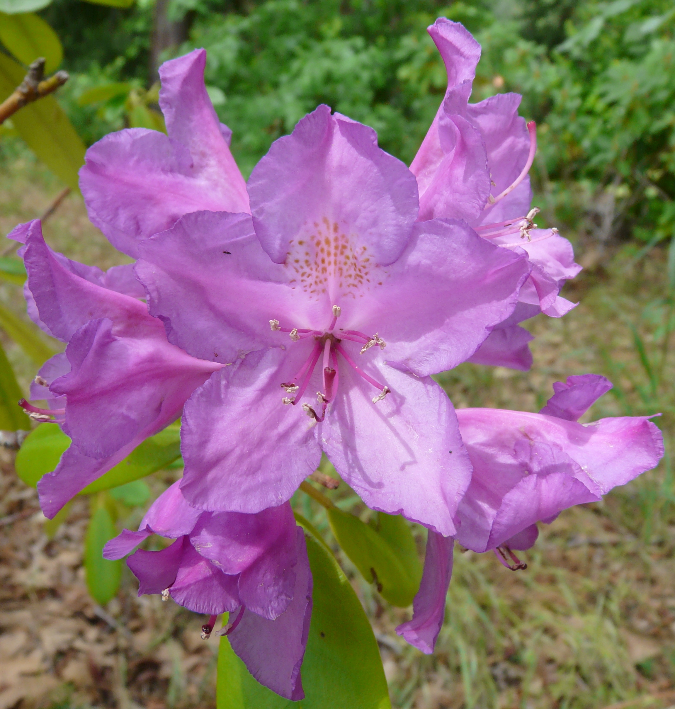 Close up of Rhododendron ponticum flower